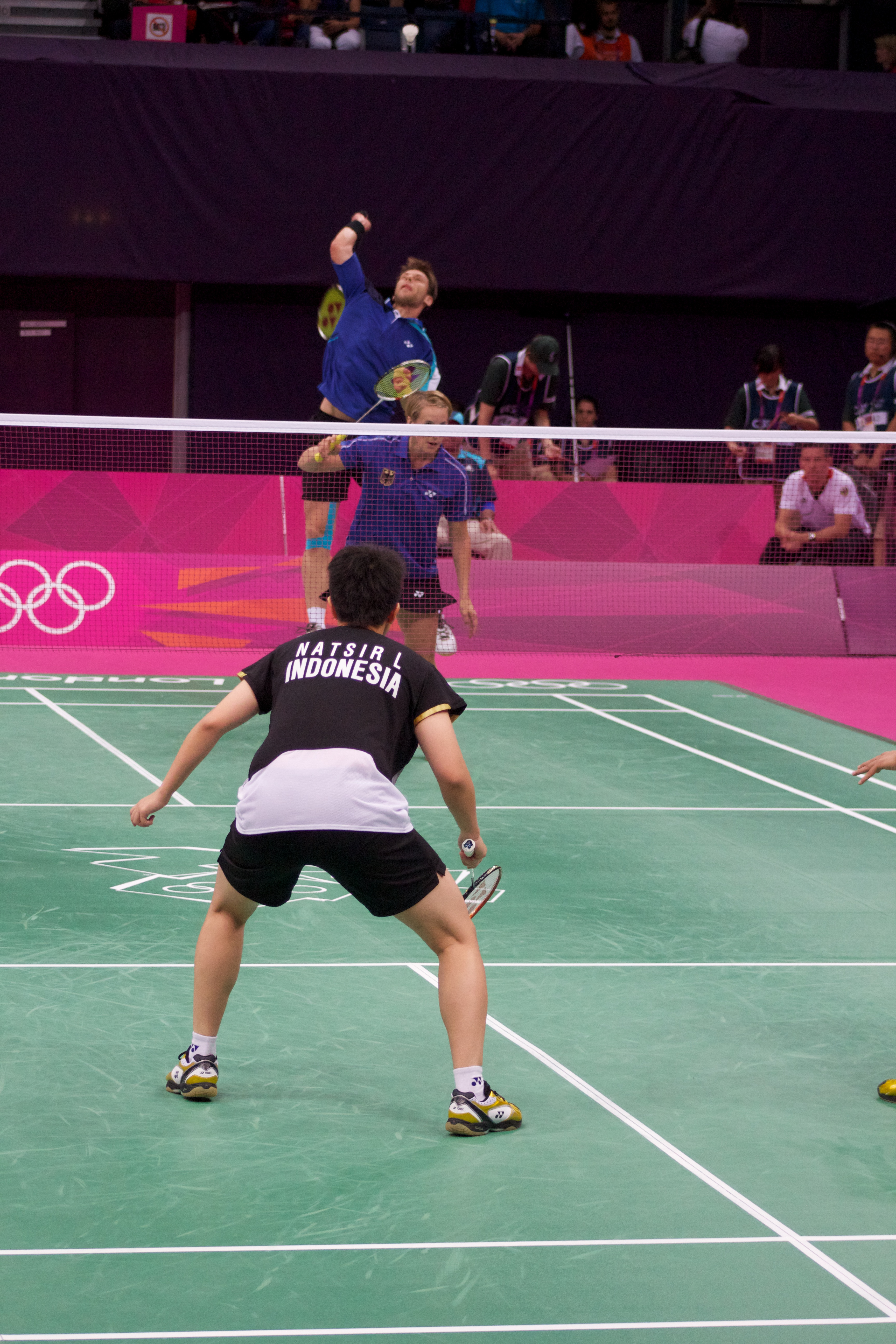 Badminton at the 2012 Summer Olympics